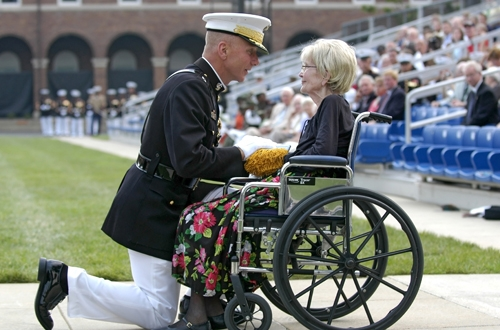 Margaret Myers, widow of U.S. Marine Maj. Reginald R. Myers, receives a ceremonial flag in honor of her husband during a Medal of Honor ceremony held at the Marine Barracks in Washington, D.C., Aug. 3, 2006.